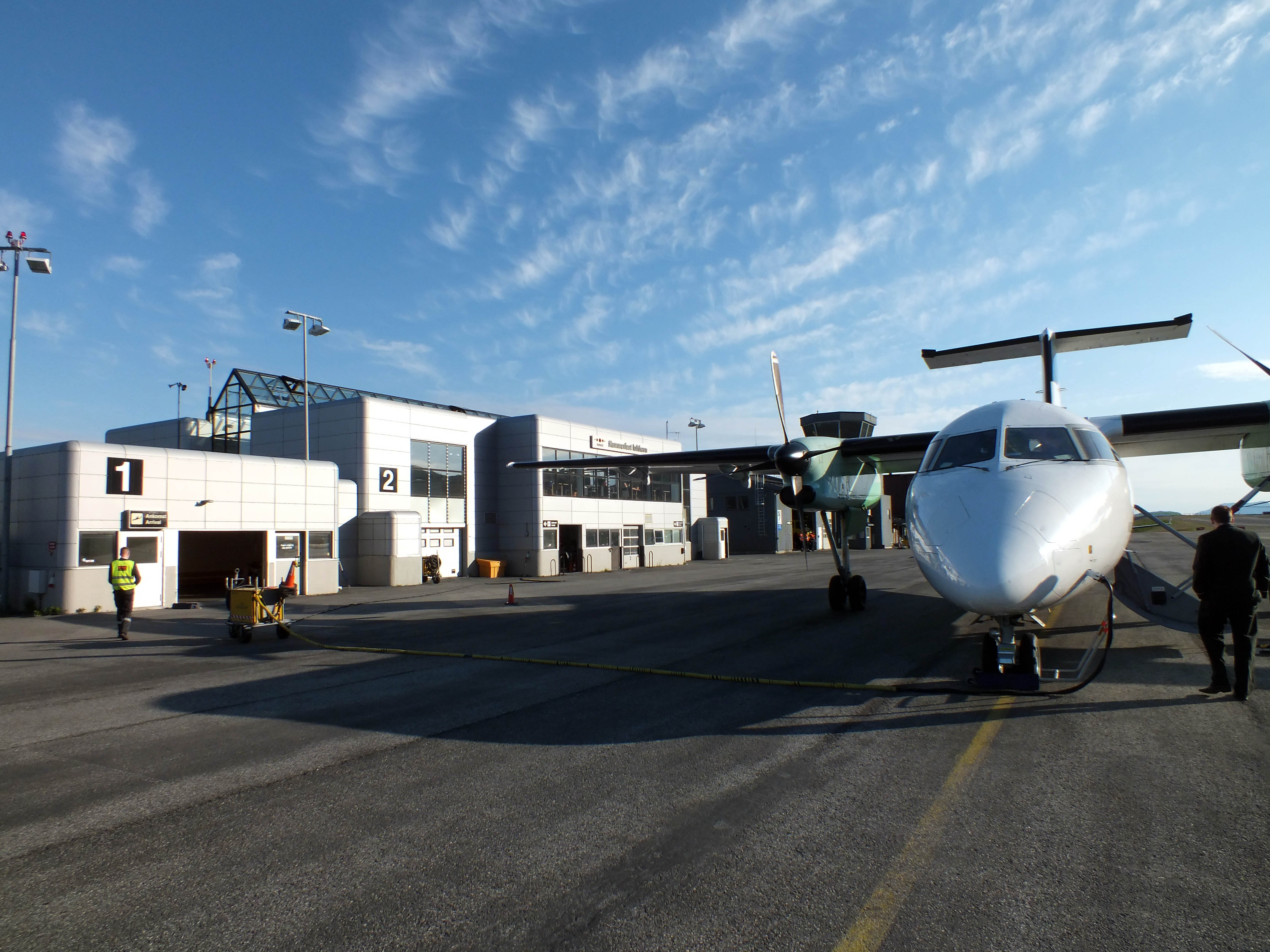 Hammerfest airport, 2013